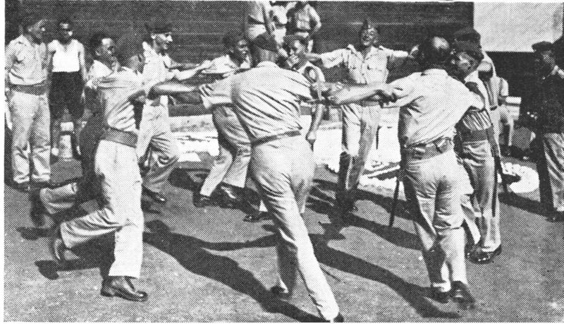 Jewish soldier settlers dancing the Hora in Palestine, 1948.